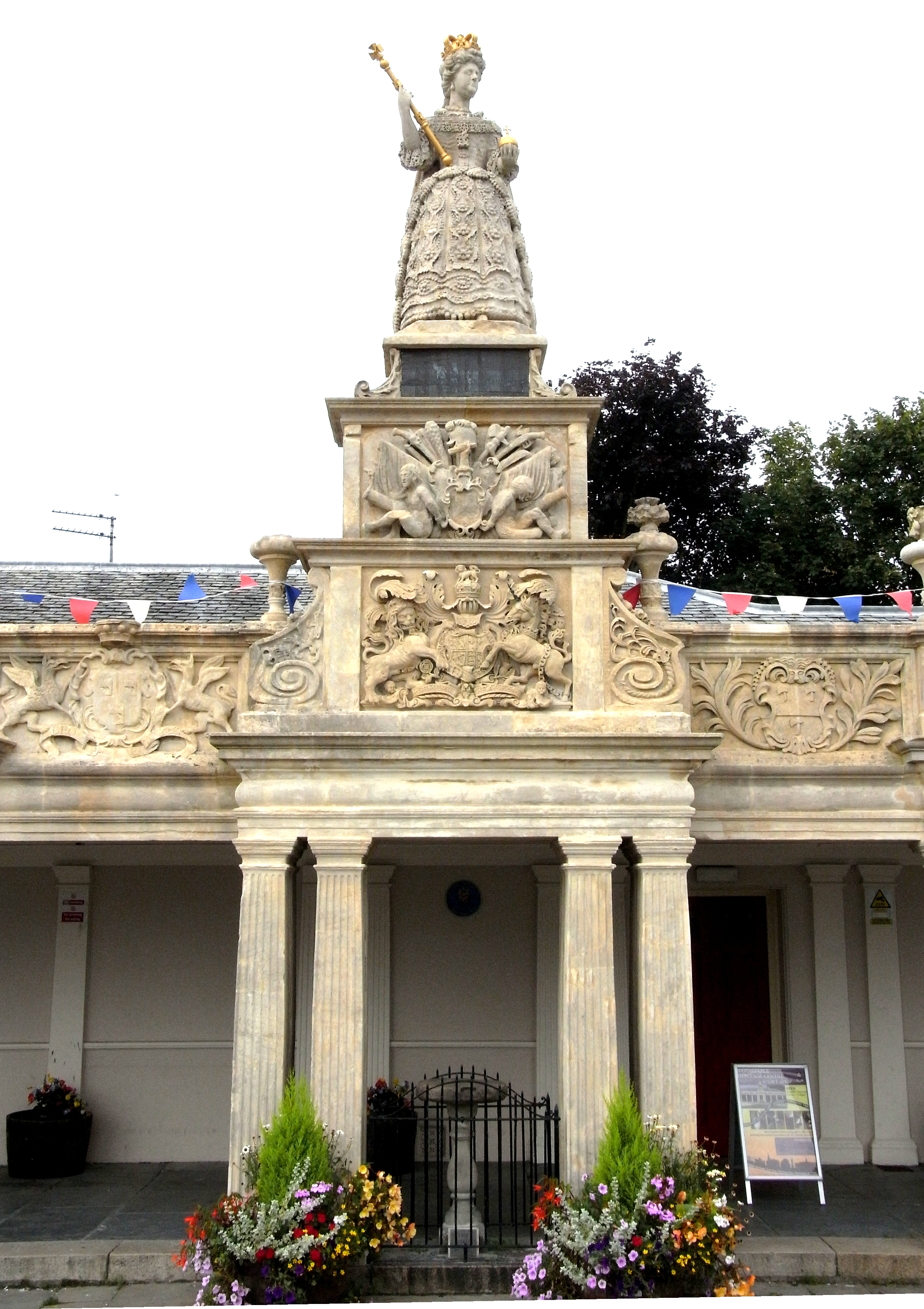 Statue of Queen Anne donated in 1708 by Robert Rolle (d.1710) of Stevenstone, MP. On the mercantile exchange now known as Queen Anne's Walk, Barnstaple, Devon.